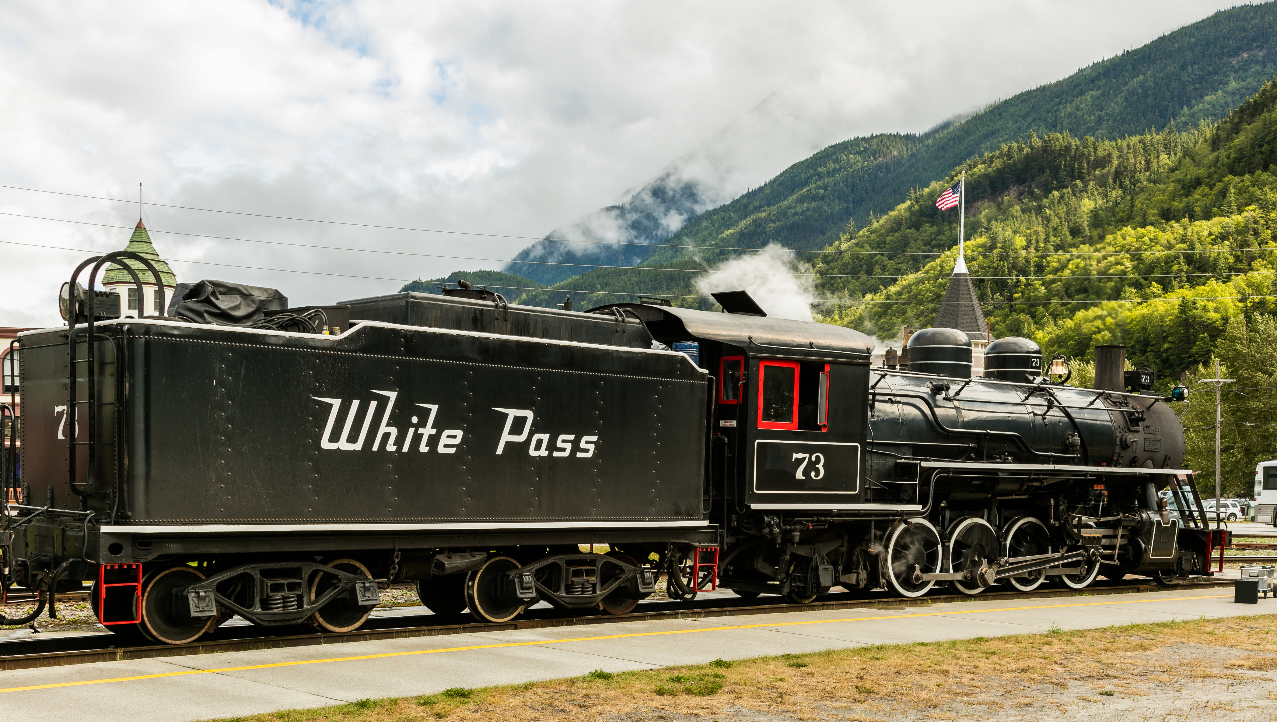 White Pass and Yukon Route railway, Skagway, Alaska, USA